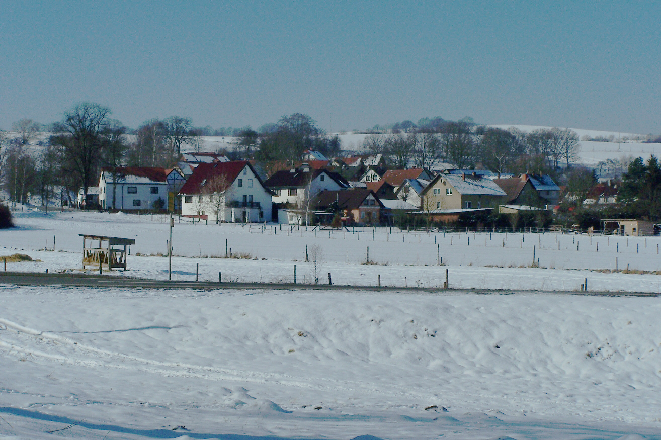 Neuendorf village in winter 2009.